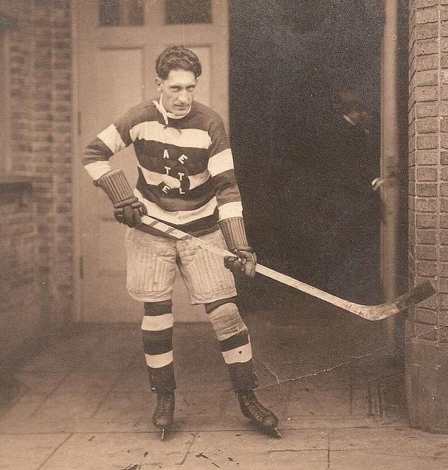 Lester Patrick of the Seattle Metropolitans